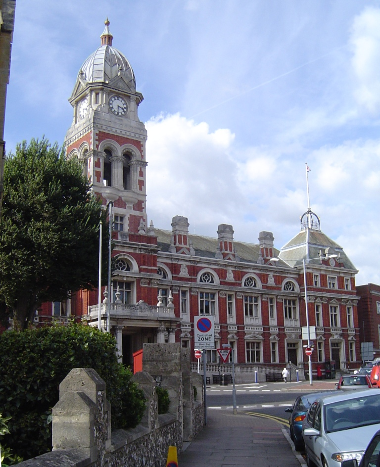 Eastbourne Town Hall